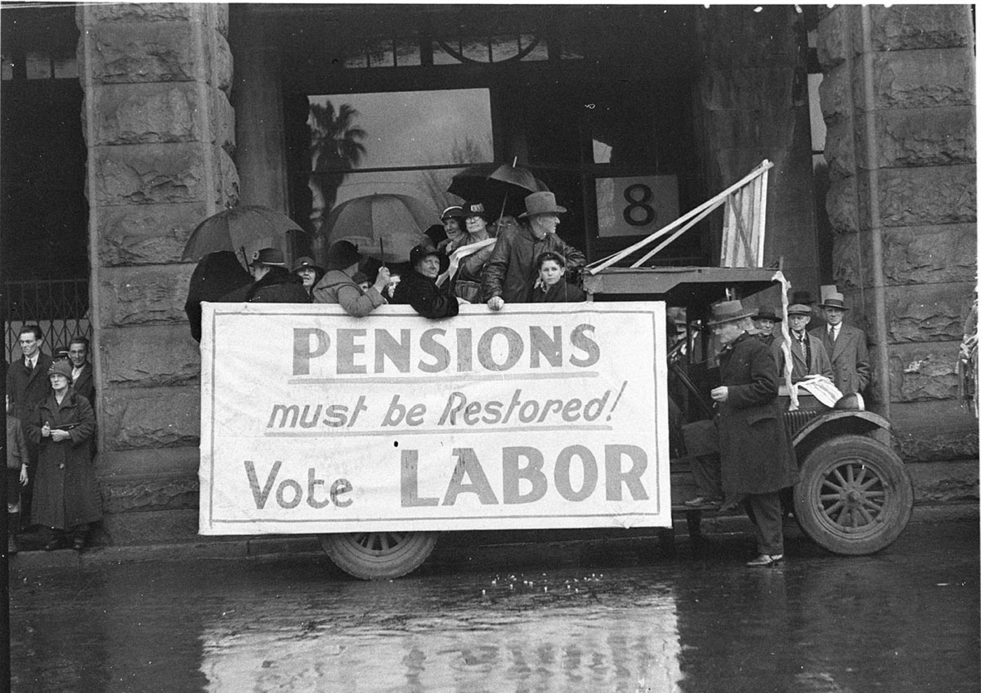 Photograph by Sam Hood from 8 September 1934 prior to the 1935 New South Wales state election. Photograph shows a car full of people, with a poster saying "Pensions must be restored! Vote Labor"